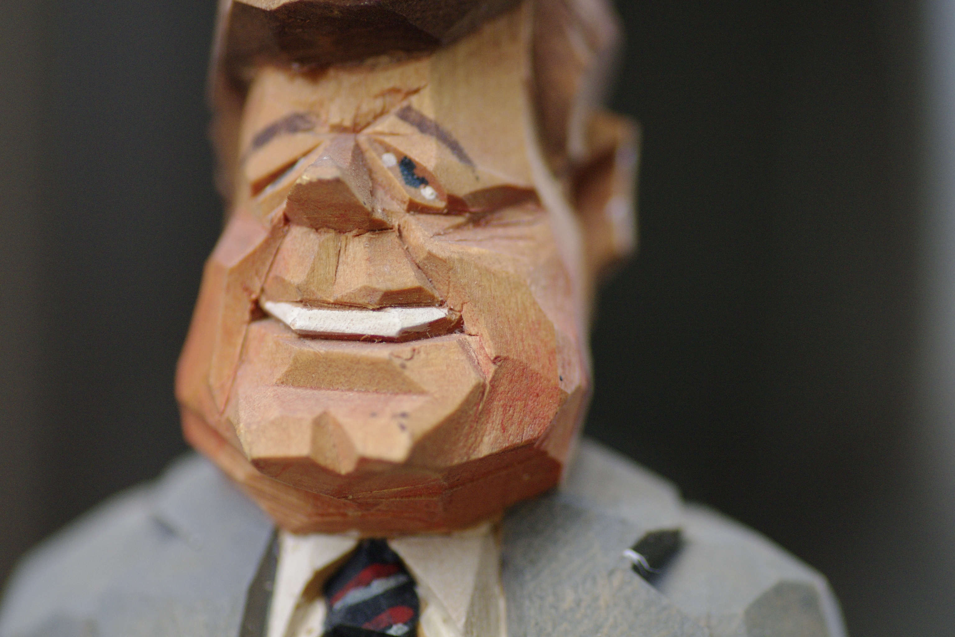 Diffraction of light and photography.Ver.1